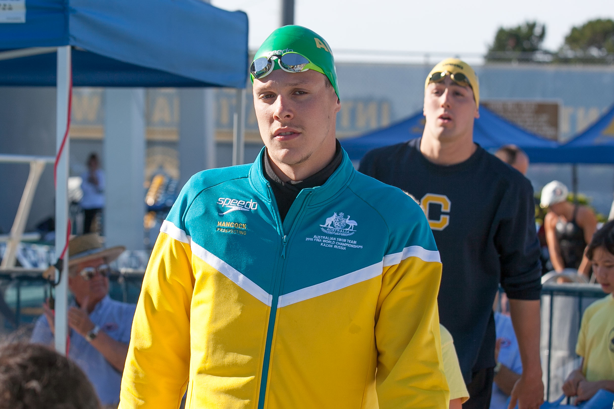 At the 2016 Santa Clara Arena Grand Prix. Noncommercial use only. Must credit: JD Lasica/Cruiseable